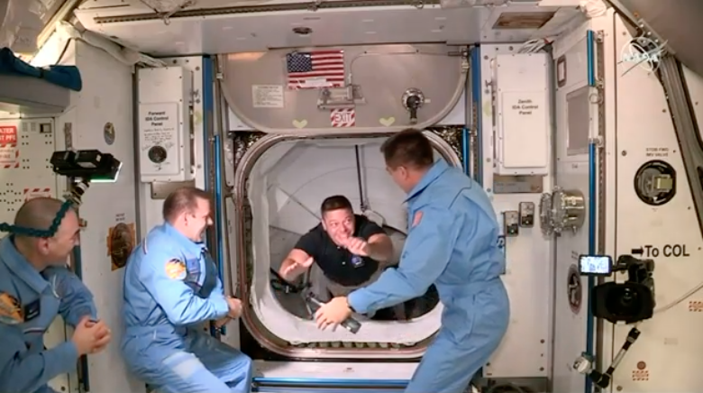 Robert Behnken entering the International Space Station, with Anatoli Ivanishin, Ivan Vagner and Christopher Cassidy watching. Screen shot from NASA's live coverage of the SpaceX Crew Dragon Demo 2, docking with the International Space Station on Sunday morning EDT, May 31, 2020.